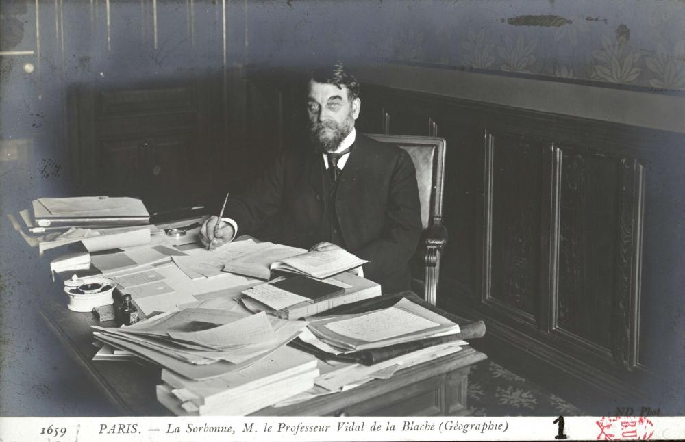 Photographic postcard